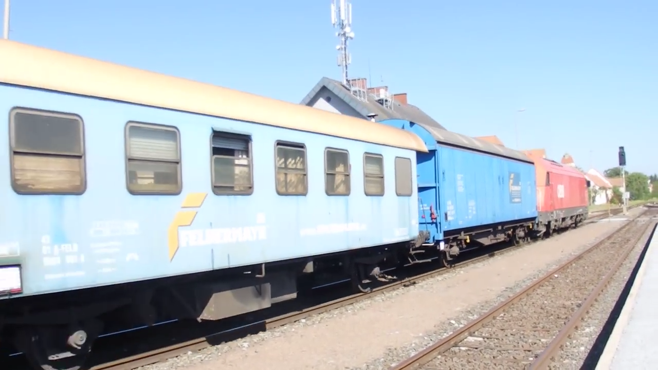 Transformatorzug von Weiz nach Wien über Fehring beim Halt in Fürstenfeld. Grund ist ein entgegenkommender Regionalexpress.